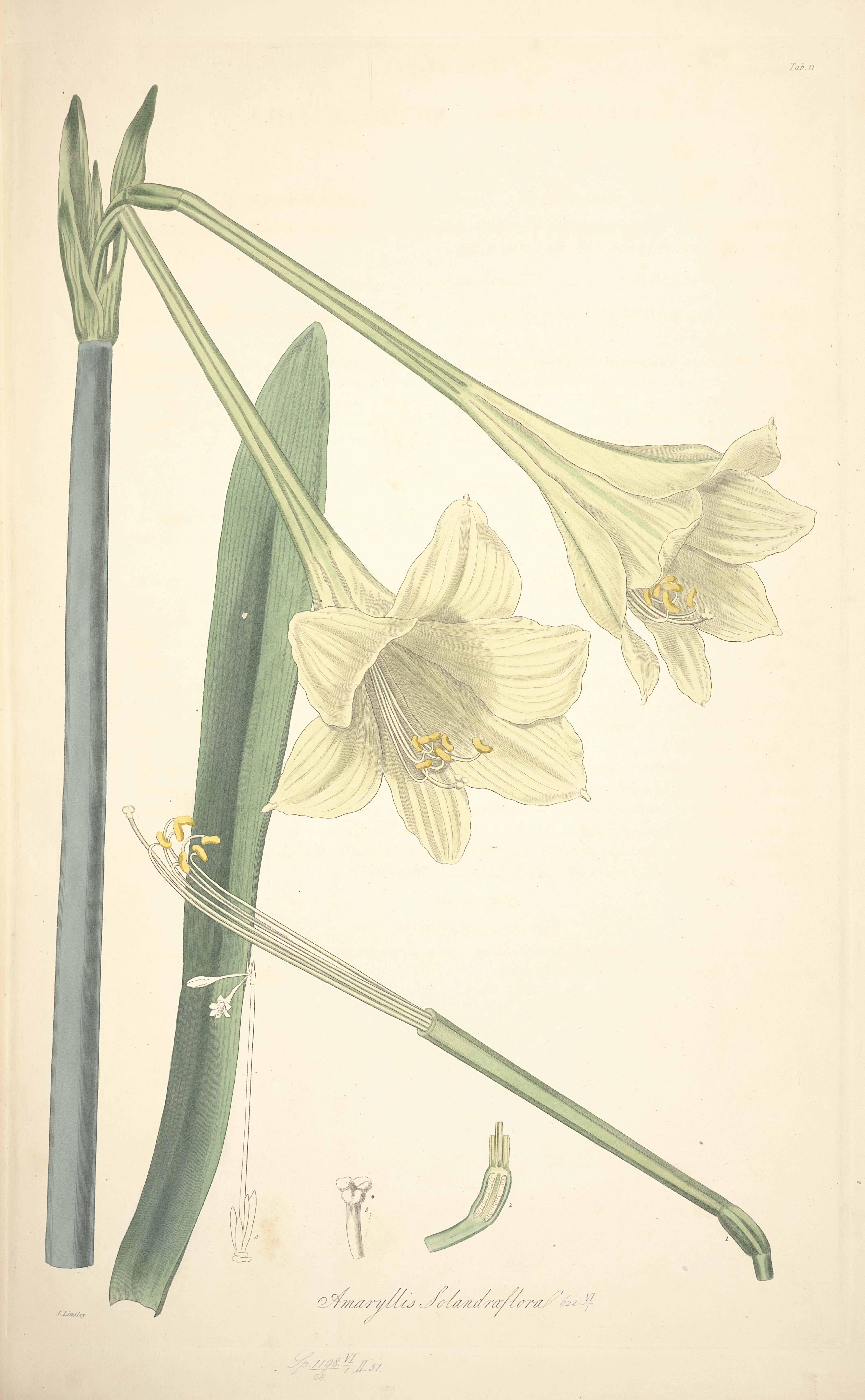 Illustration from John Lindley's "Collectanea botanica or, figures and botanical illustrations of rare and curious exotic plants" Trizeuxis Falcata